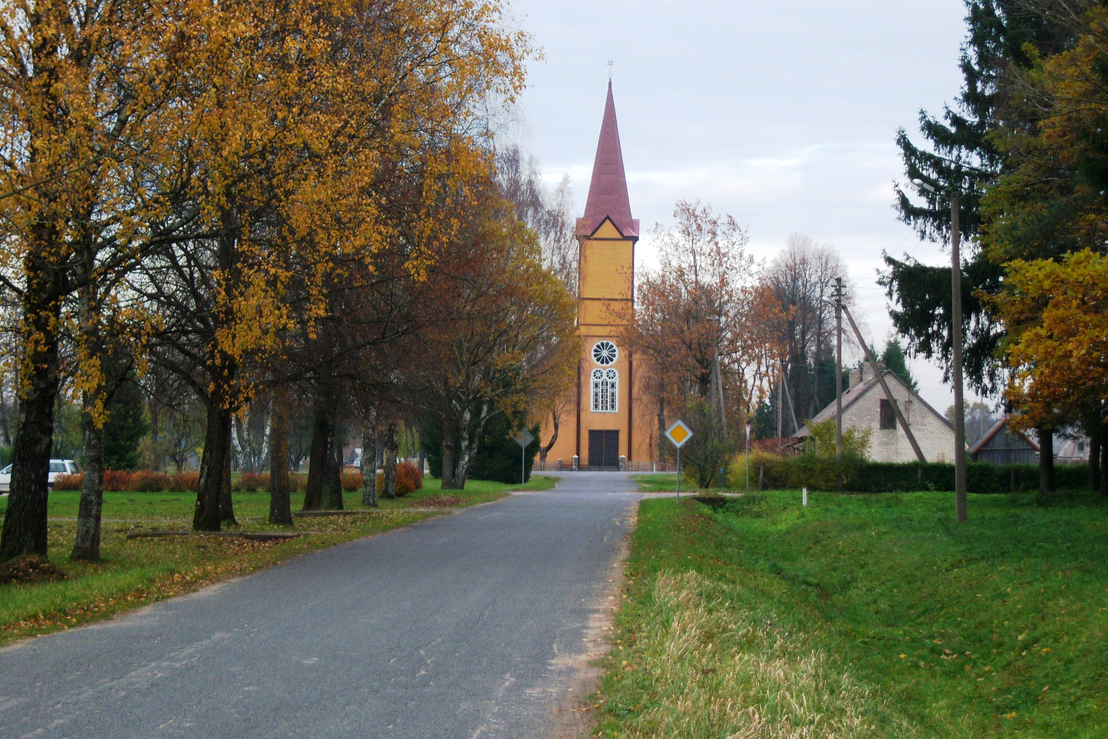 Stalgėnai church, Plungė District. Lithuania